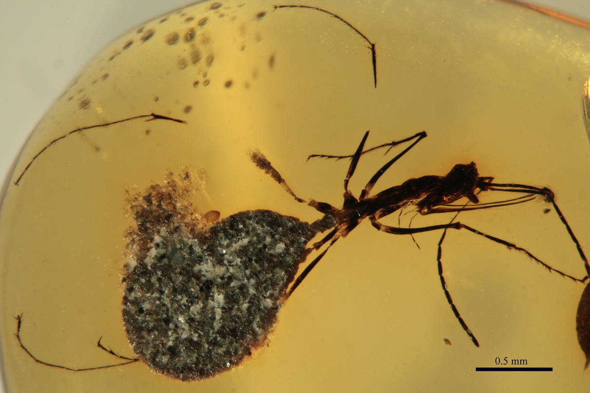 FANTWEB00005 Ceratomyrmex ellenbergeri worker specimen